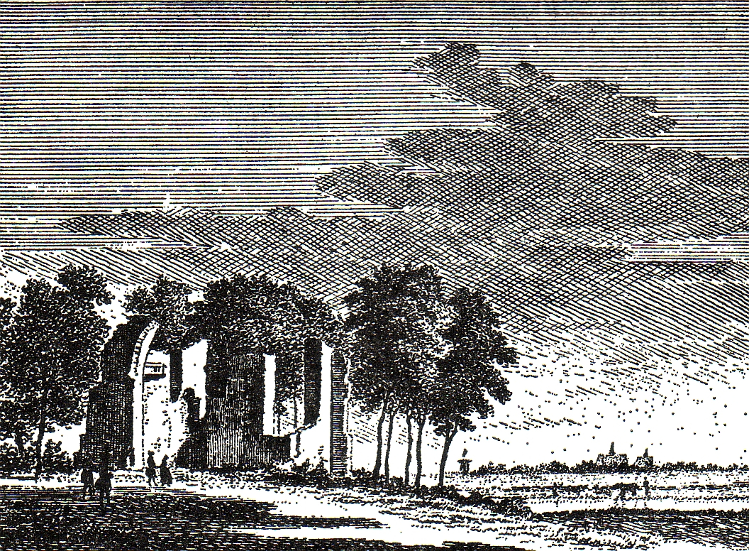 Looperskapelle with Brouwershaven in the background